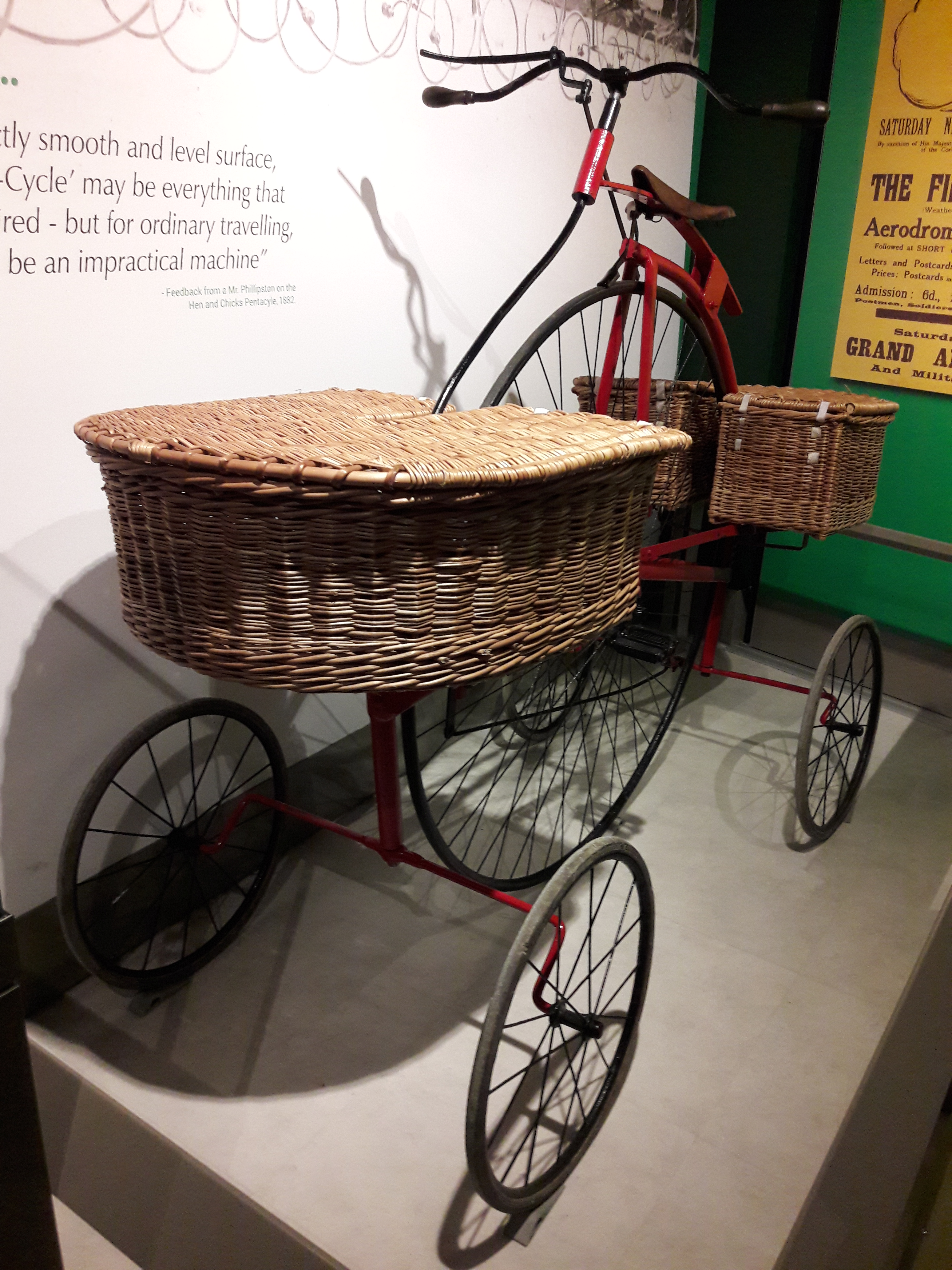 Hen and Chick pentacycle for delivering mail. Trialled in 1882. Popularity never extended beyond the town of Horsham where its inventor lived. Now a part of the collection of the British Postal Museum & Archive. Displayed at Postal Museum (London).